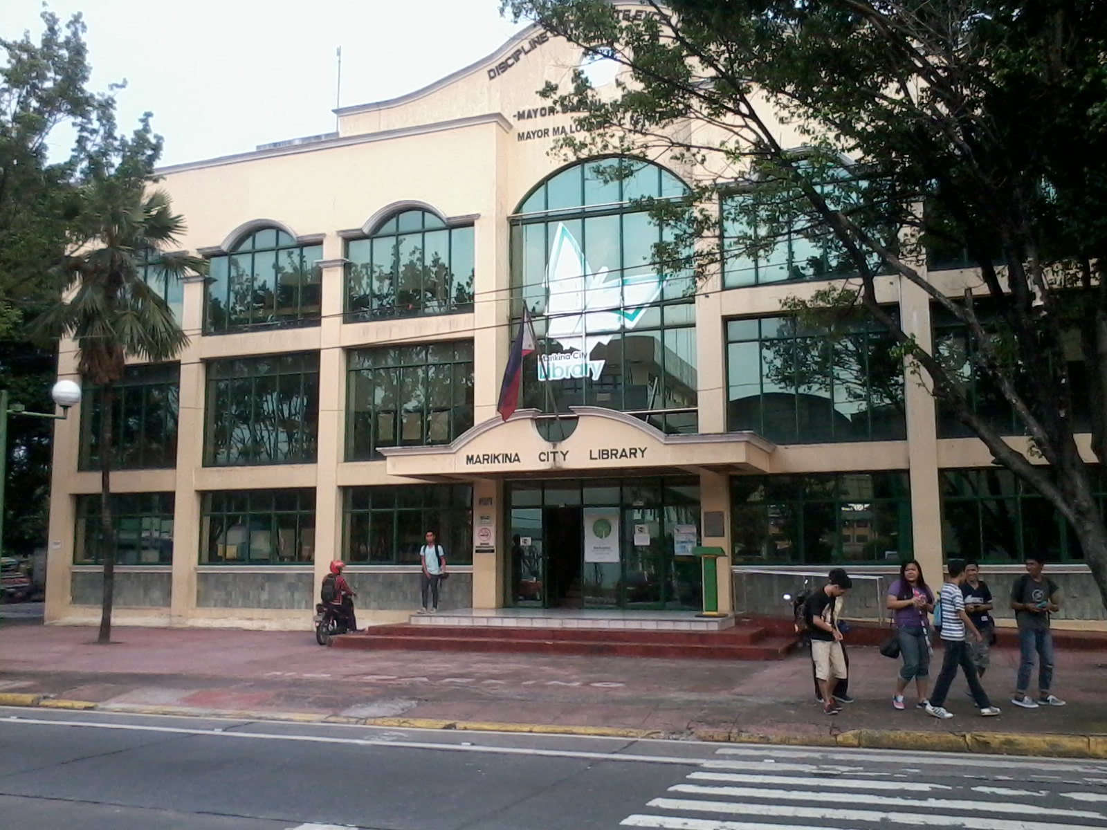 Facade of the Marikina City Library, Metro Manila, Philippines